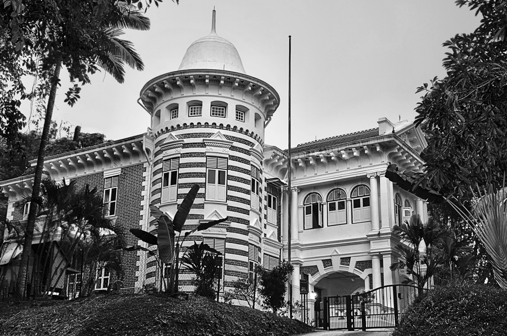 The Danish Seamen's Church at 10 Pender Road on Mount Faber, Singapore, which has leased the building since 1984. The mansion was designed by Wee Moh Teck and constructed in 1909 by Tan Boo Liat, a great-grandson of the philanthropist Tan Tock Seng. Tan Boo Liat named it Golden Bell Mansion after his grandfather Tan Kim Ching (陈金钟 – "金钟" means "golden bell"). As Tan Boo Liat was president of the Singapore branch of the Kuomintang, he invited Dr. Sun Yat-Sen to stay in the house briefly in 1911. The house was sold in 1934 following Tan's death.